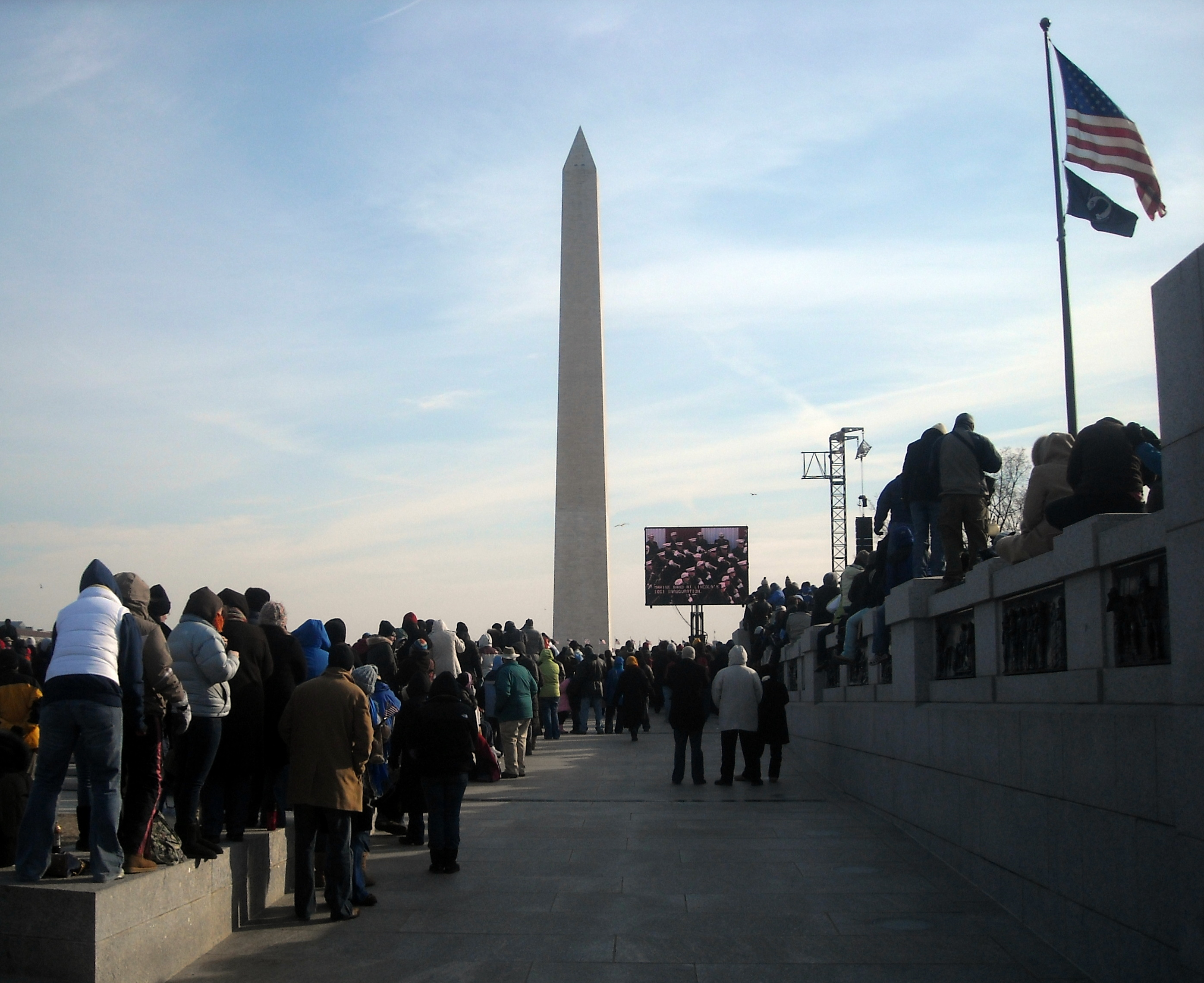 People watching Barack Obama's presidential inauguration in Washington, D.C. Picture taken at the National World War II Memorial.